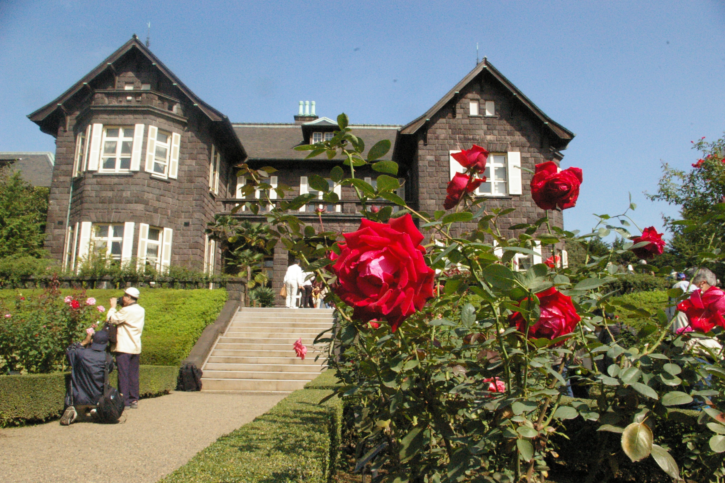 A Sample of Deepfocus.Both Nearby Rose and Old Building at the back are in Focus.